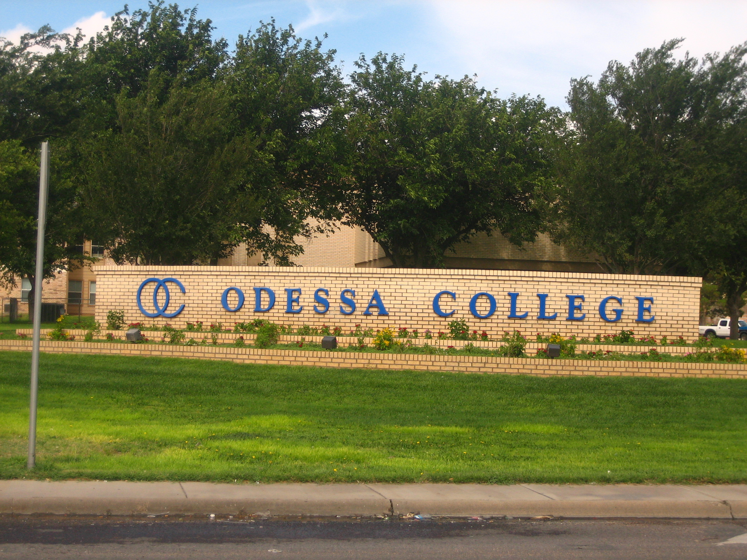 I took photo on July 10, 2008.Billy Hathorn (talk) 03:49, 27 July 2008 (UTC)